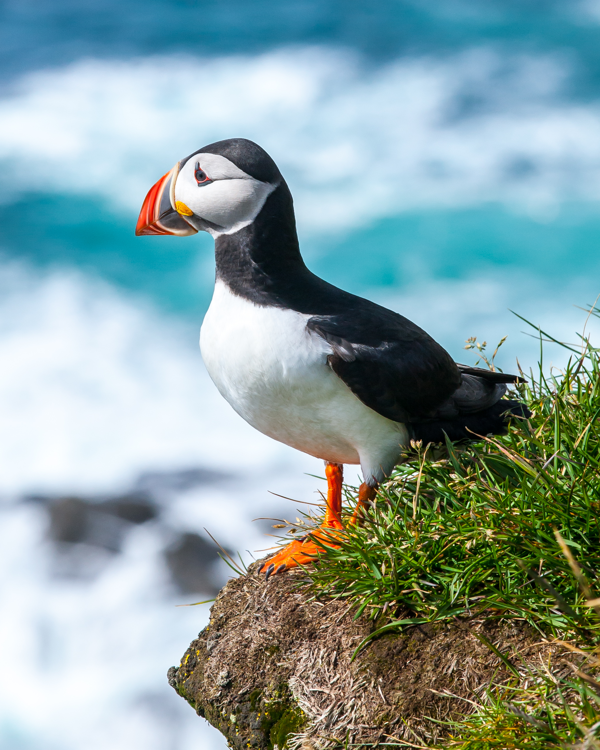 Puffin (Fratercula arctica) at Látrabjarg, Iceland.